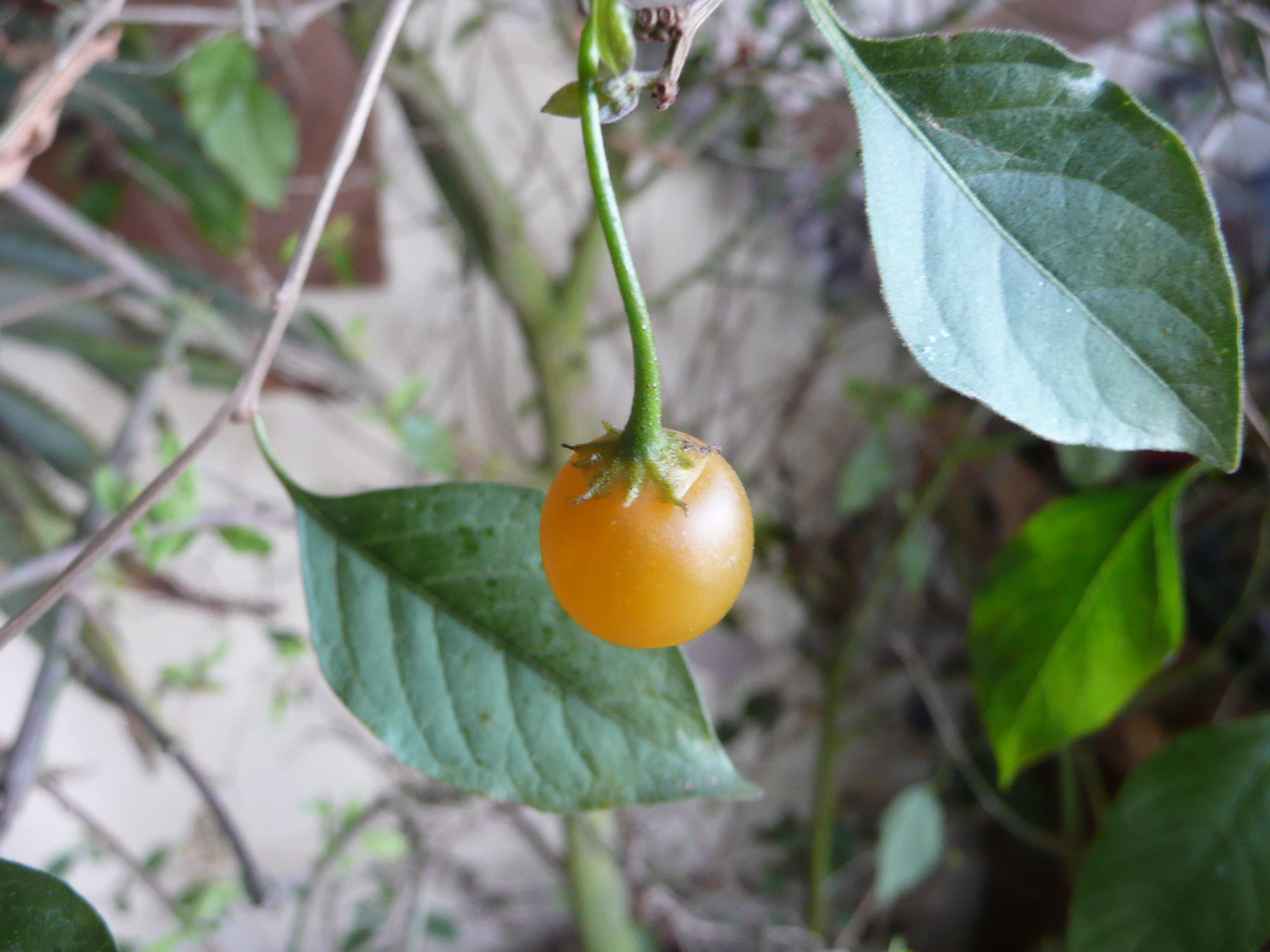 Fruit of Lycianthes rantonnetii (Synonym: Solanum rantonnetii), about 15 mm in diameter.